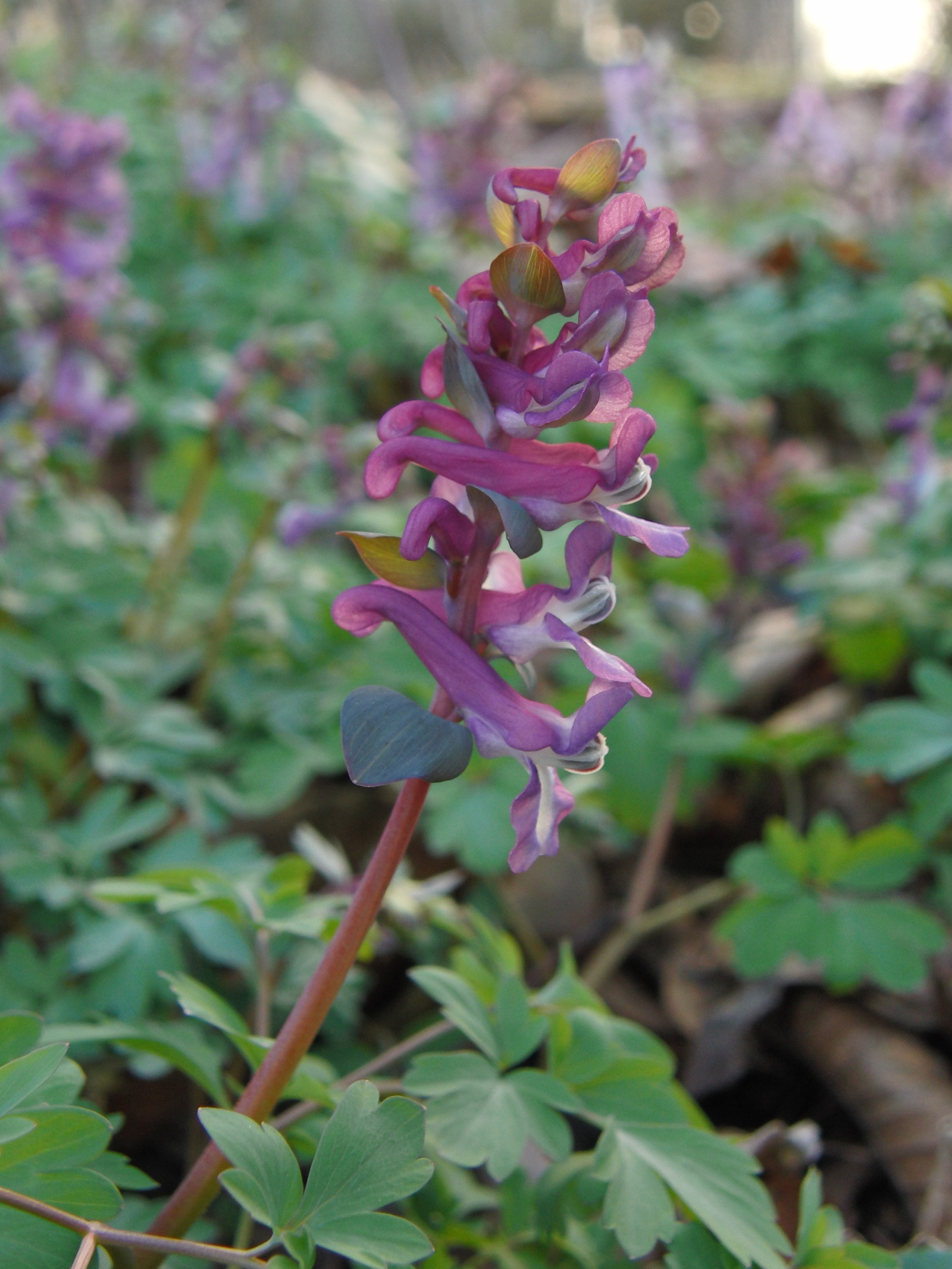 Corydalis cava blooming in a small park in the city of Bonn, Germany